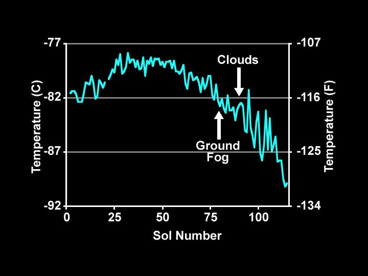 This chart plots the minimum daily atmospheric temperature measured by NASA's Phoenix Mars Lander spacecraft since landing on Mars. As the temperature increased through the summer season, the atmospheric humidity also increased. Clouds, ground fog, and frost were observed each night after the temperature started dropping.